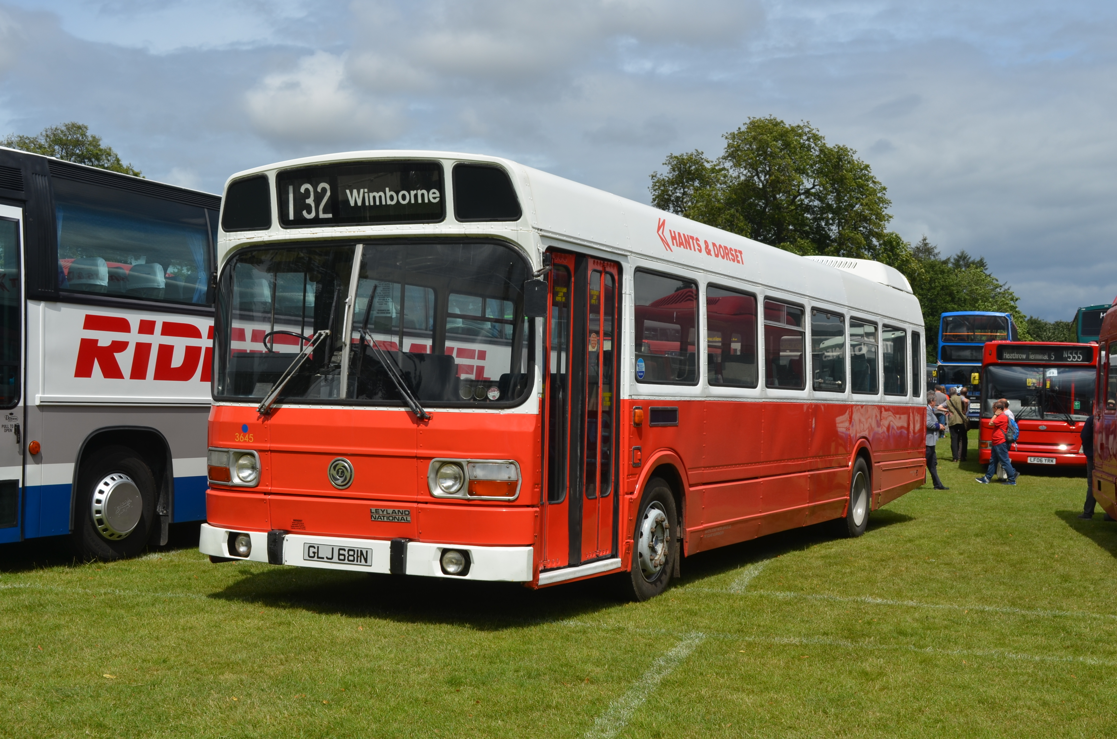 Preserved Hants & Dorset GLJ681N at the Alton Bus Rally in 2019. This carries the NBC dual purpose livery of half white and half base colour of the subsidiary, in this case poppy red. This is a "suburban coach" version, where the standard bus shell was fitted with high backed seats and roof mounted luggage racks